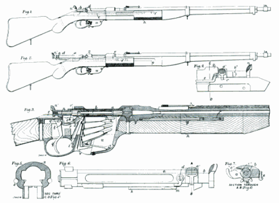 Patent drawing of the Esser-Barrat rifle